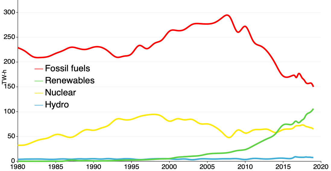 UK electricity production by source 1980-2017 Q3, based on a previous graph by Theanphibian which used the EIA, using databrowser with query similar to this while this graph also uses info from [1][2] for 2013-2015 and [1] for 2015 onwards (rolling annual average from this point on)